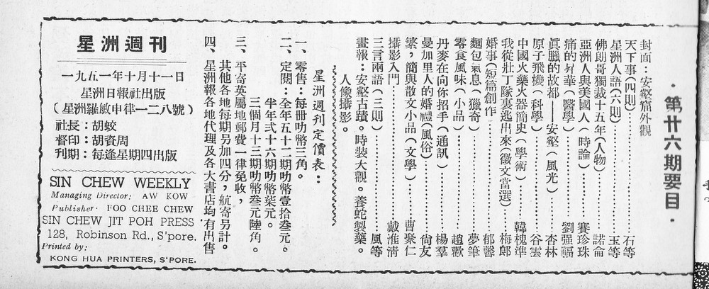 Sin Chew Weekly Issue 26 1951 October 11, Singapore Table of content